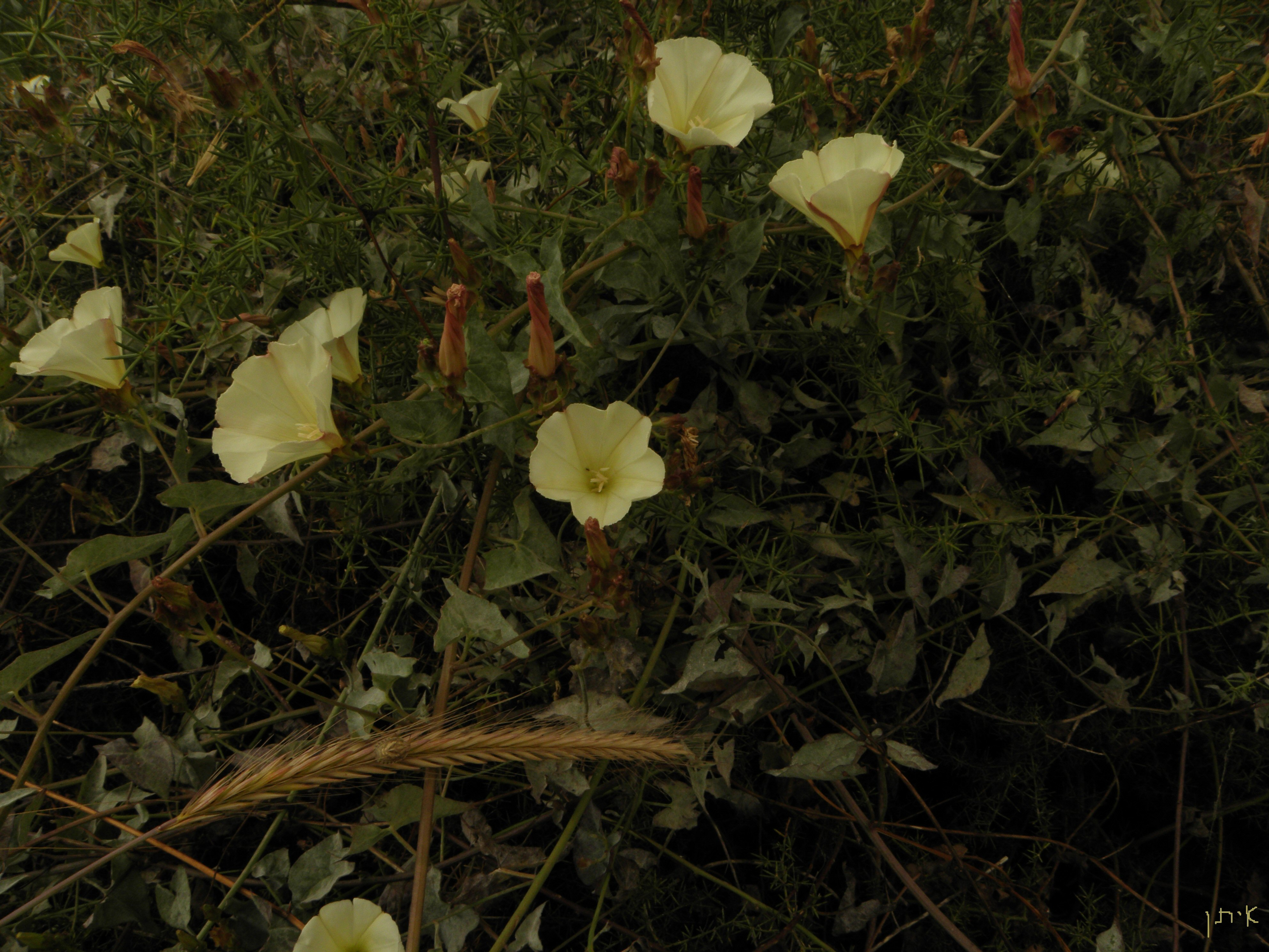 Convolvulus scammonia